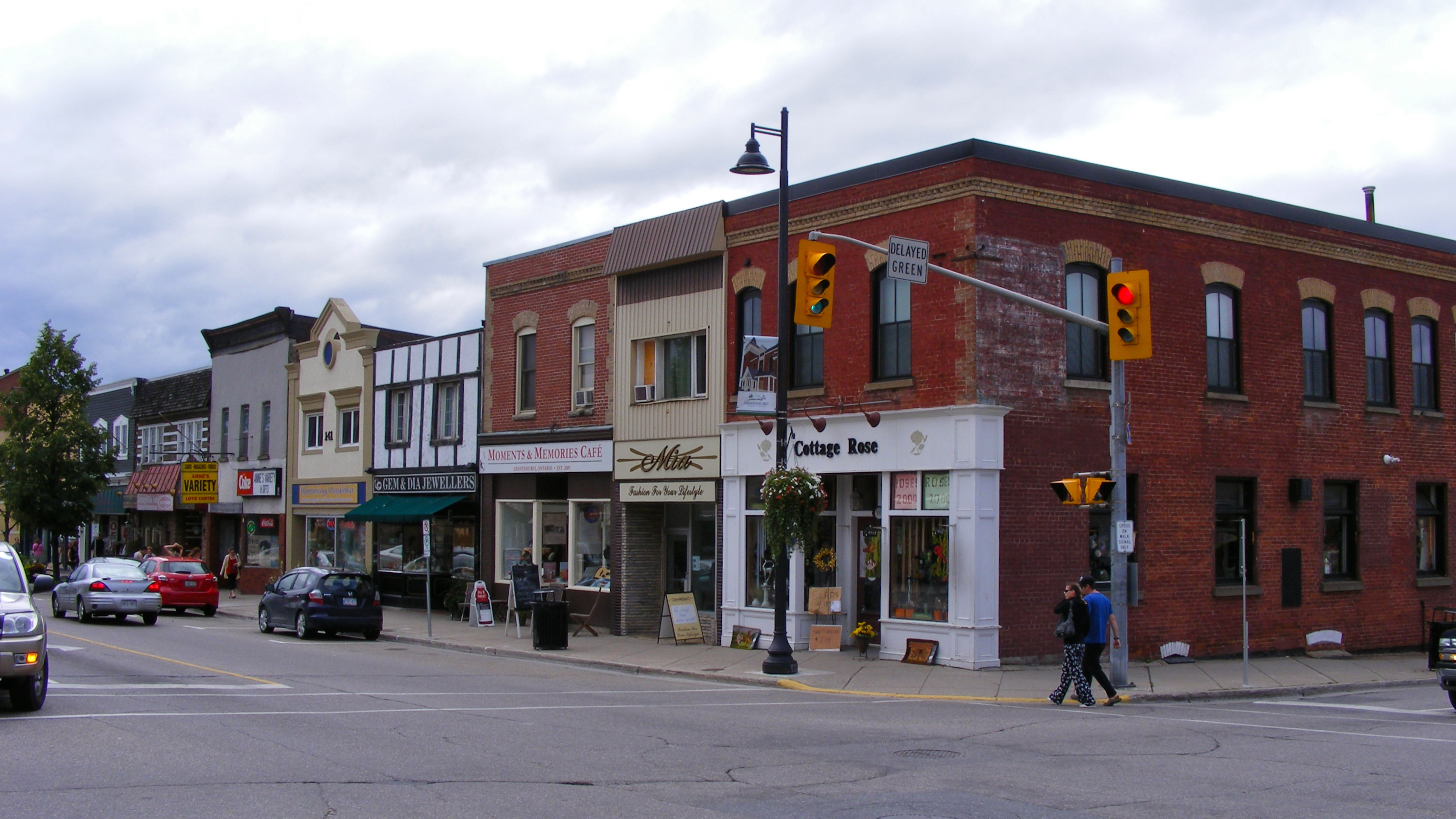 Muskoka road buildings in Gravenhurst, Ontario. Town's main street. Intersection of Muskoka Road and Bay Street.